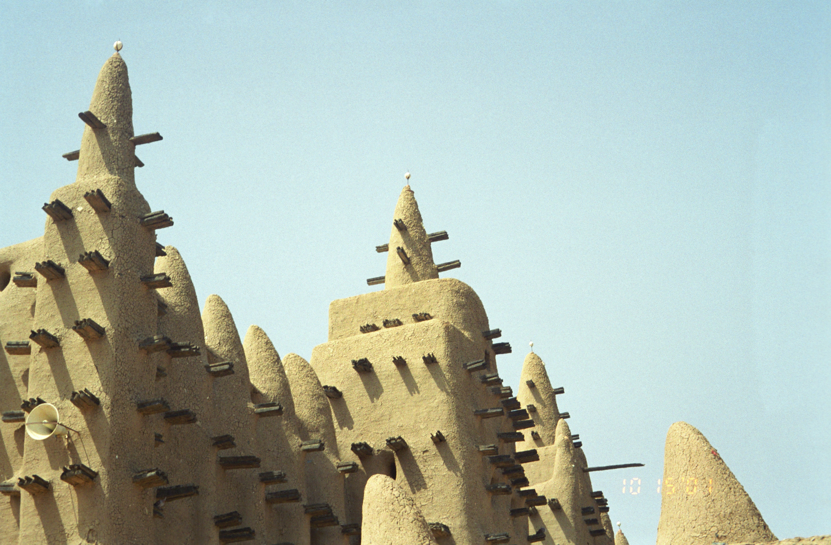 zoom to the top of the mosque